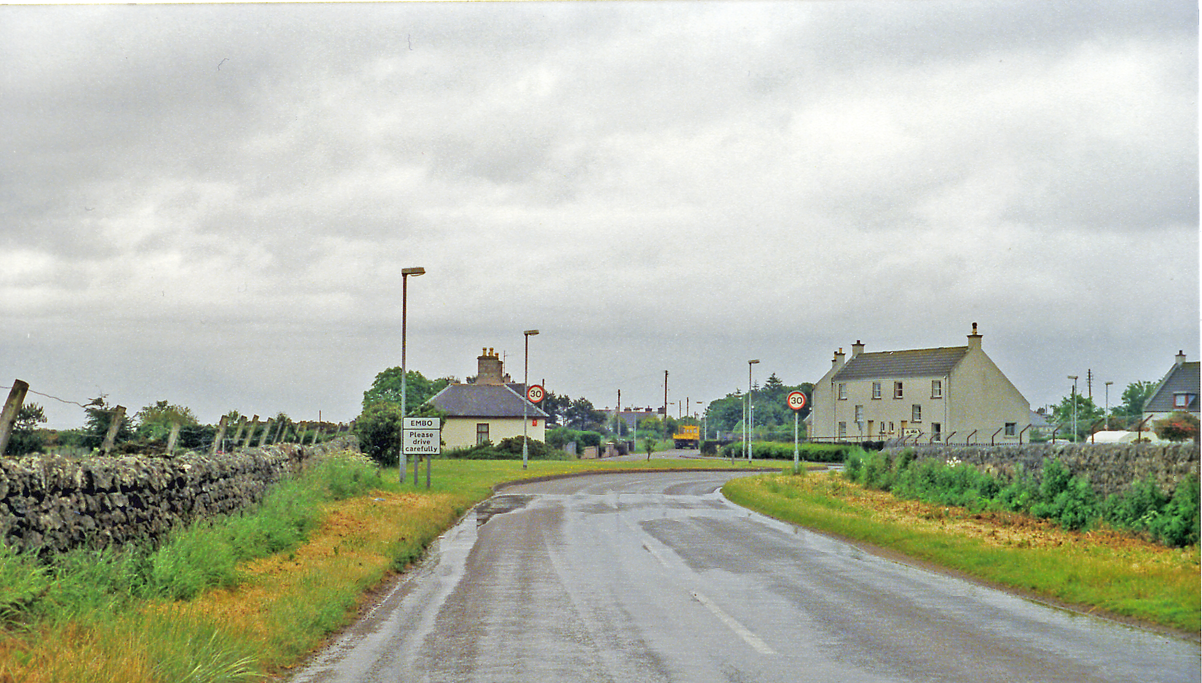 Embo: site/remains of station, 1996. View eastward,towards the sea: ex-Highland Railway branch from The Mound (to left) to Dornoch (to right), which closed 13/6/60.